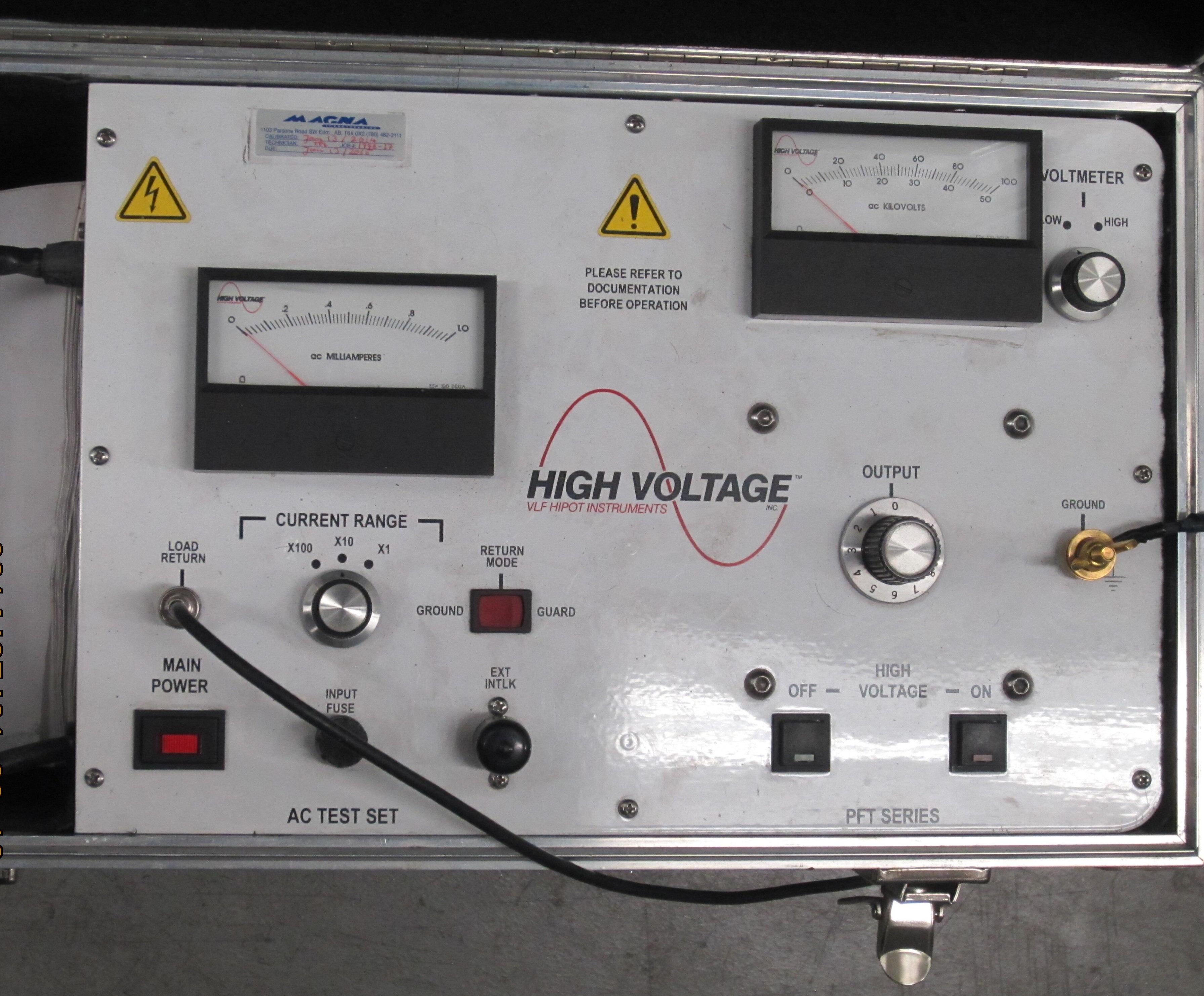 Control panel of a portable 100 kV test set used for factory "hipot" dielectric testing of switchgear and other electrical assemblies. The control knob adjusts the applied voltage displayed on one meter, while the other meter shows the leakage current. If too much current flows, the high voltage is cut off. This may indicate an insulation breakdown.